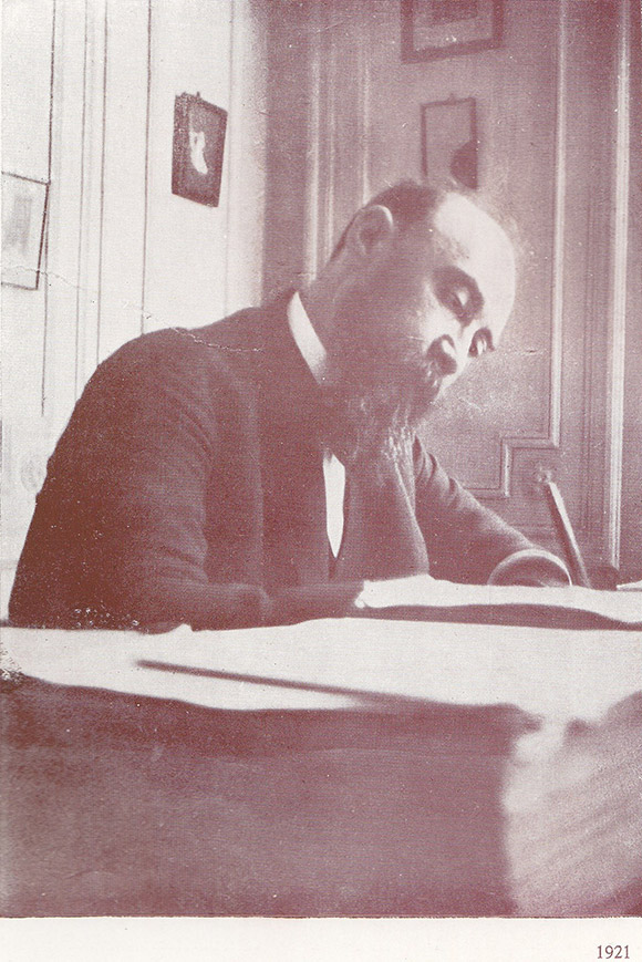 Iorga la biroul de lucru în 1921